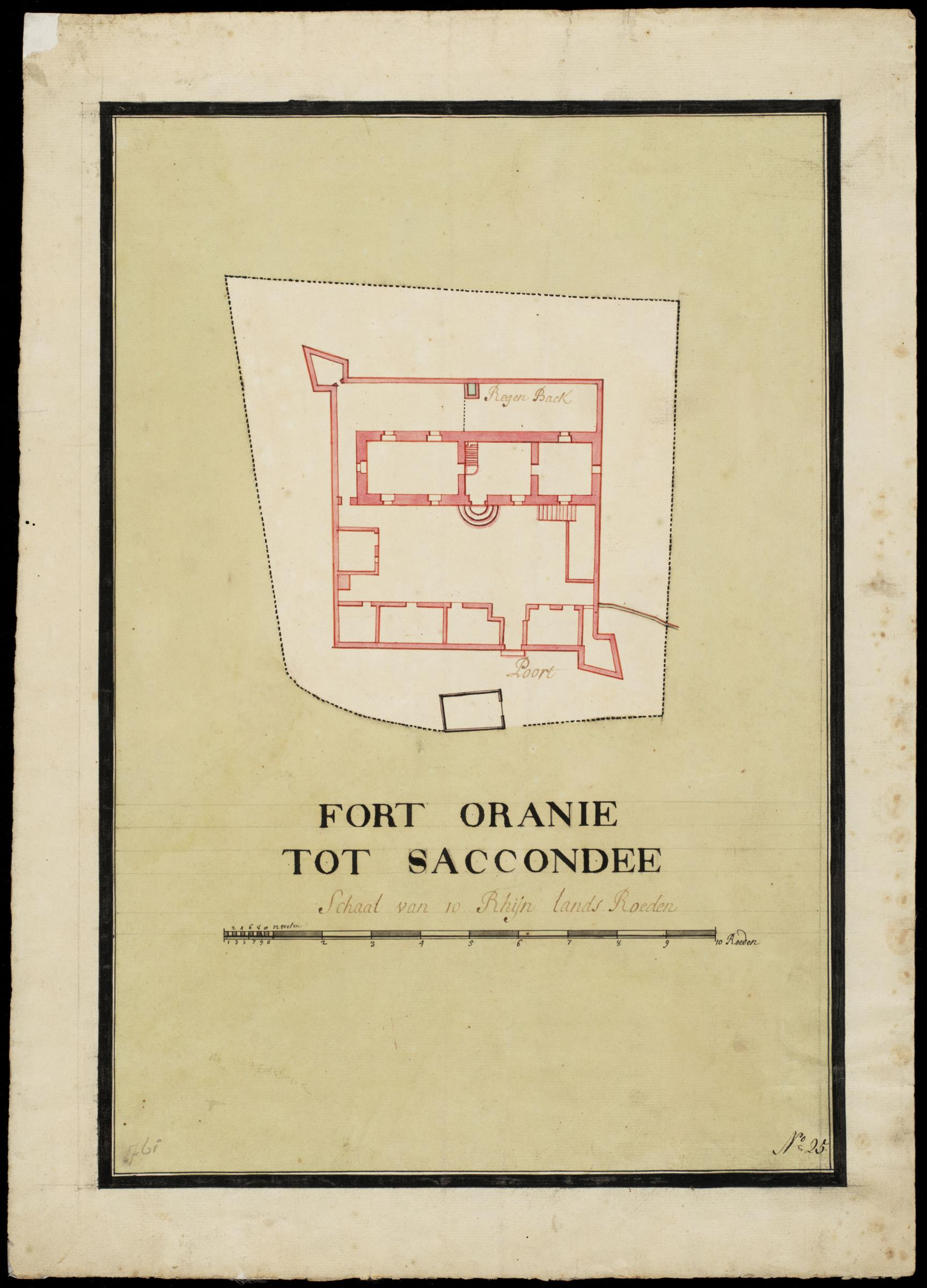 Floor plan of the Oranje fort at Sekondi. Title in the Leupe catalogue (NA): Plan van het Fort Oranie tot Saccondee. Fort Oranie tot Saccondee. Bottom right: No: 25. Bottom left: 762 [in pencil]. Notes on reverse: No. 21 Fort Oranje. Register 8, Deel 1, Folio 34, Portefeuille .. [inscribed on a blue label] / 458 [stamped in bold on a small label].